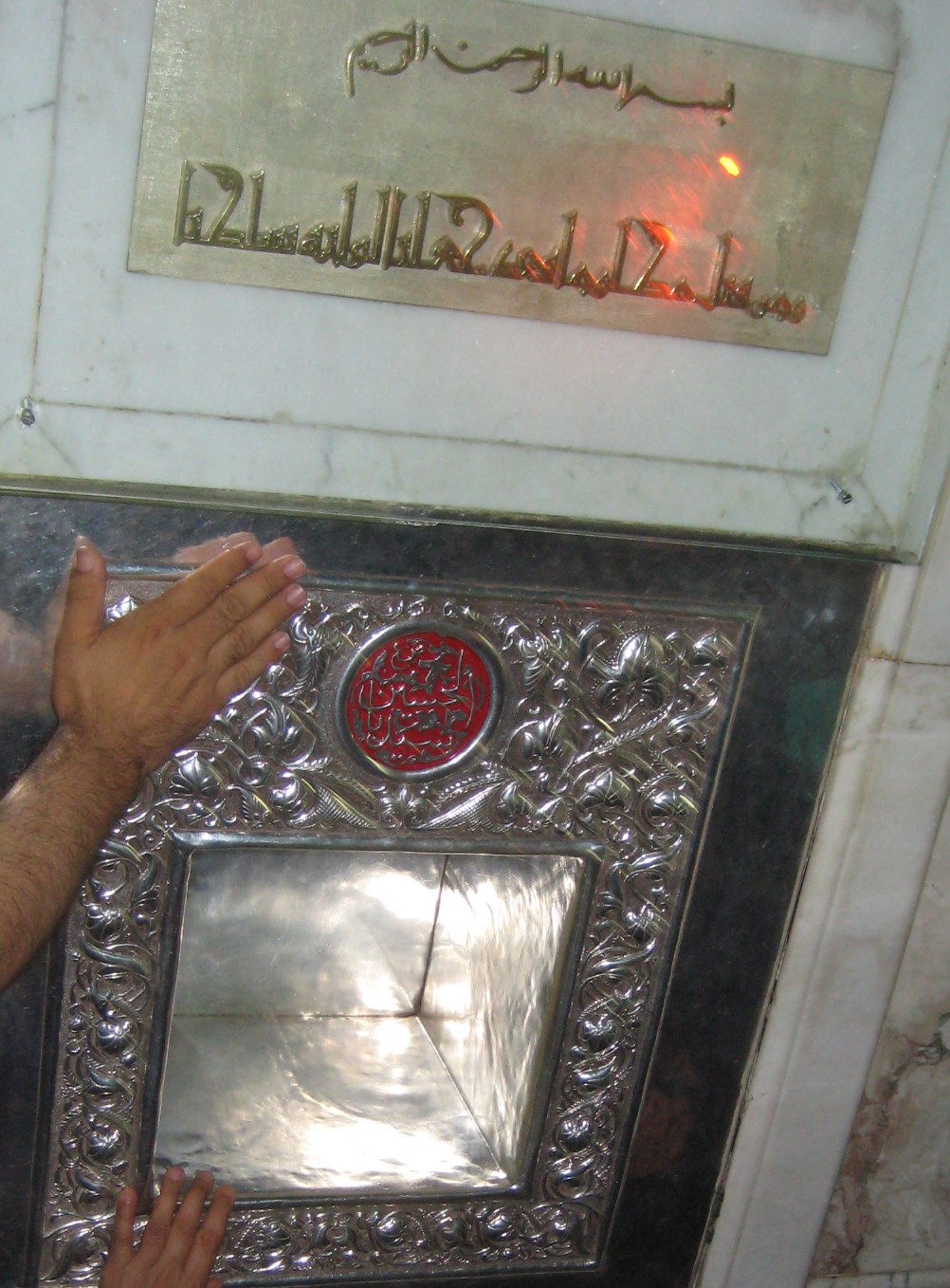 Umayyad Mosque - The place where Imam Husayn's head was kept